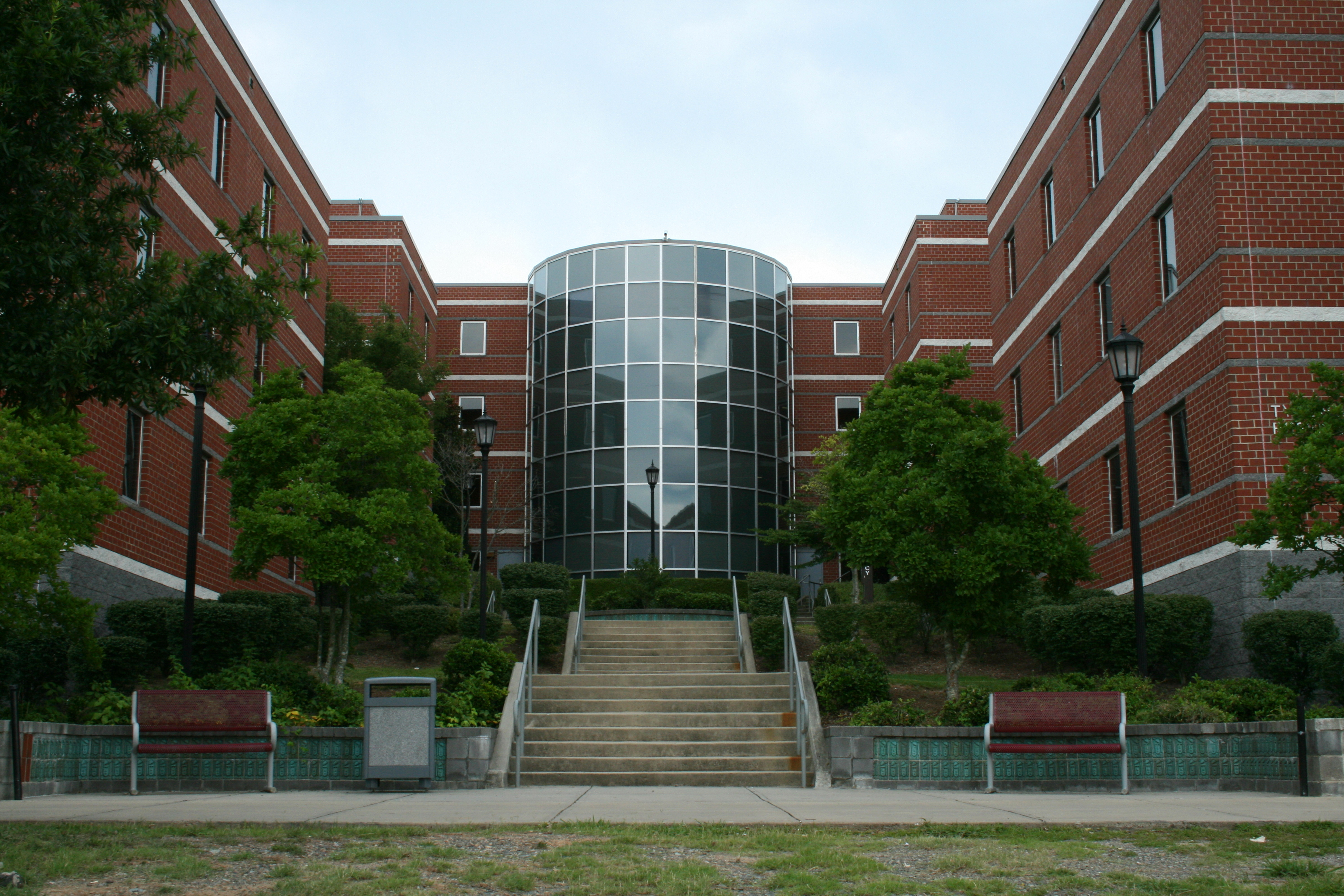 The entrance of New Residence Hall I at North Carolina Central University in Durham, North Carolina.